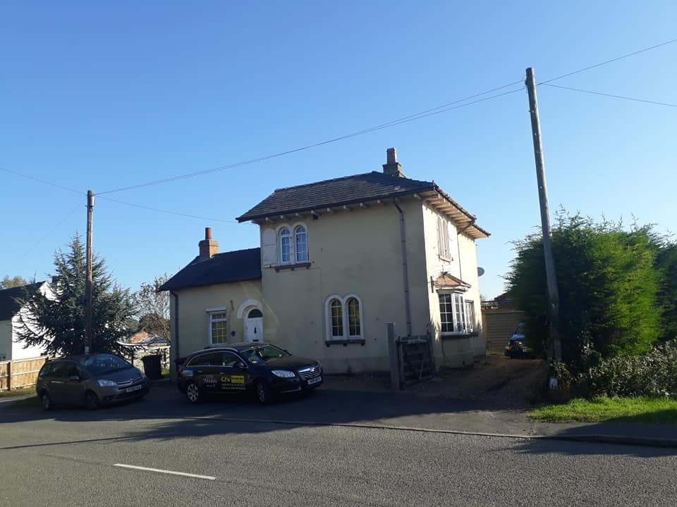 My own